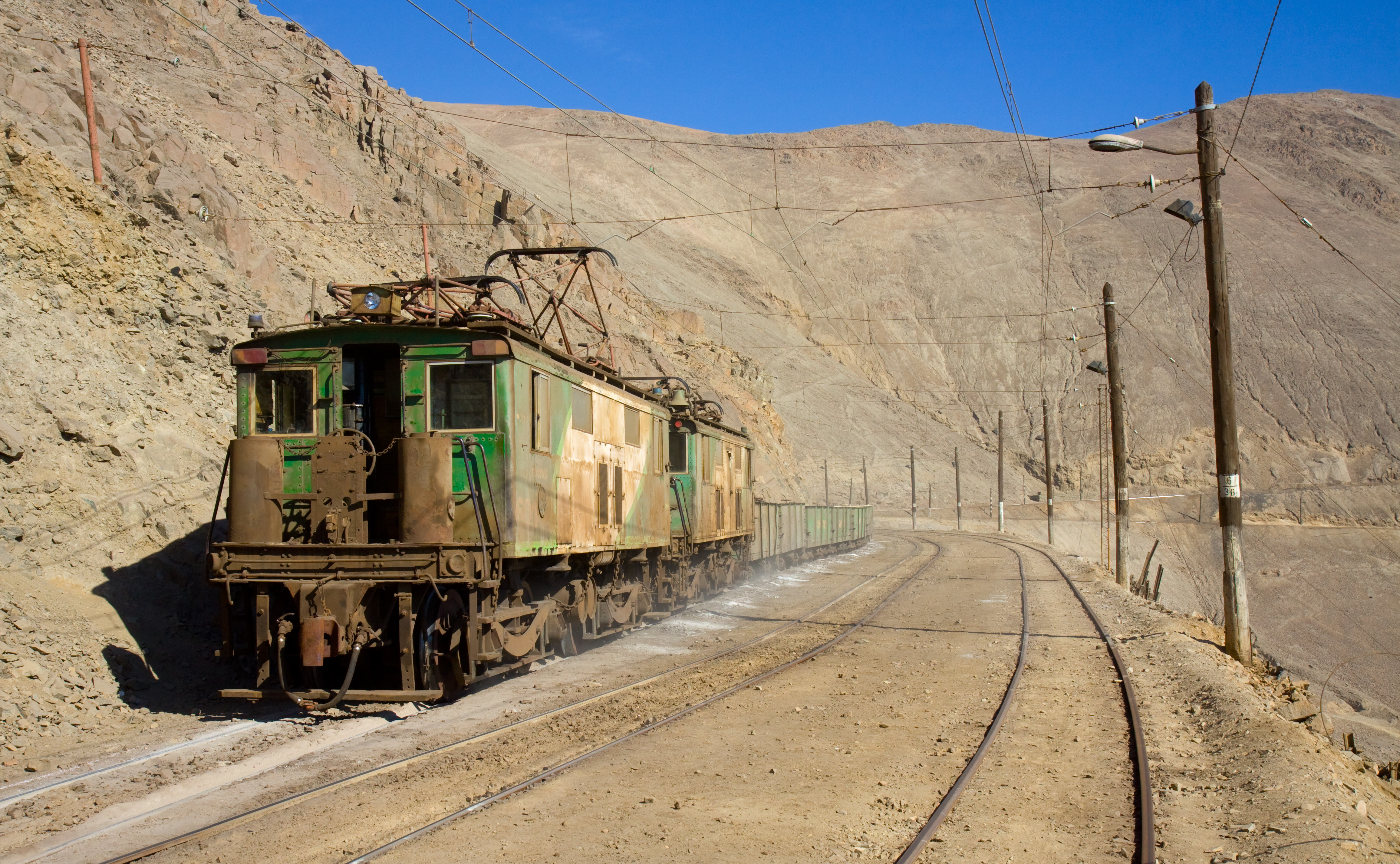 Two GE "Boxcabs", operated by SQM (Sociedad Quimica y Minera de Chile), in the switchback "Reverso" above Tocopilla, Chile. The train has just arrived and the locomotives will be uncoupled and attached to the other end of the train in a moment. The two tracks going down resp. up are visible in the background.